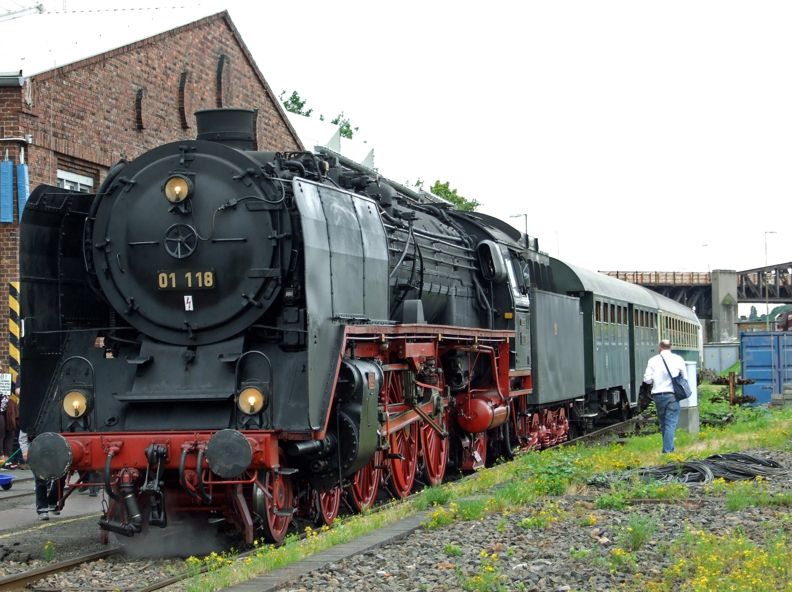 Steam locomotive "BR 01 118", at habour celebration in 2009, "Historische Eisenbahn Frankfurt"